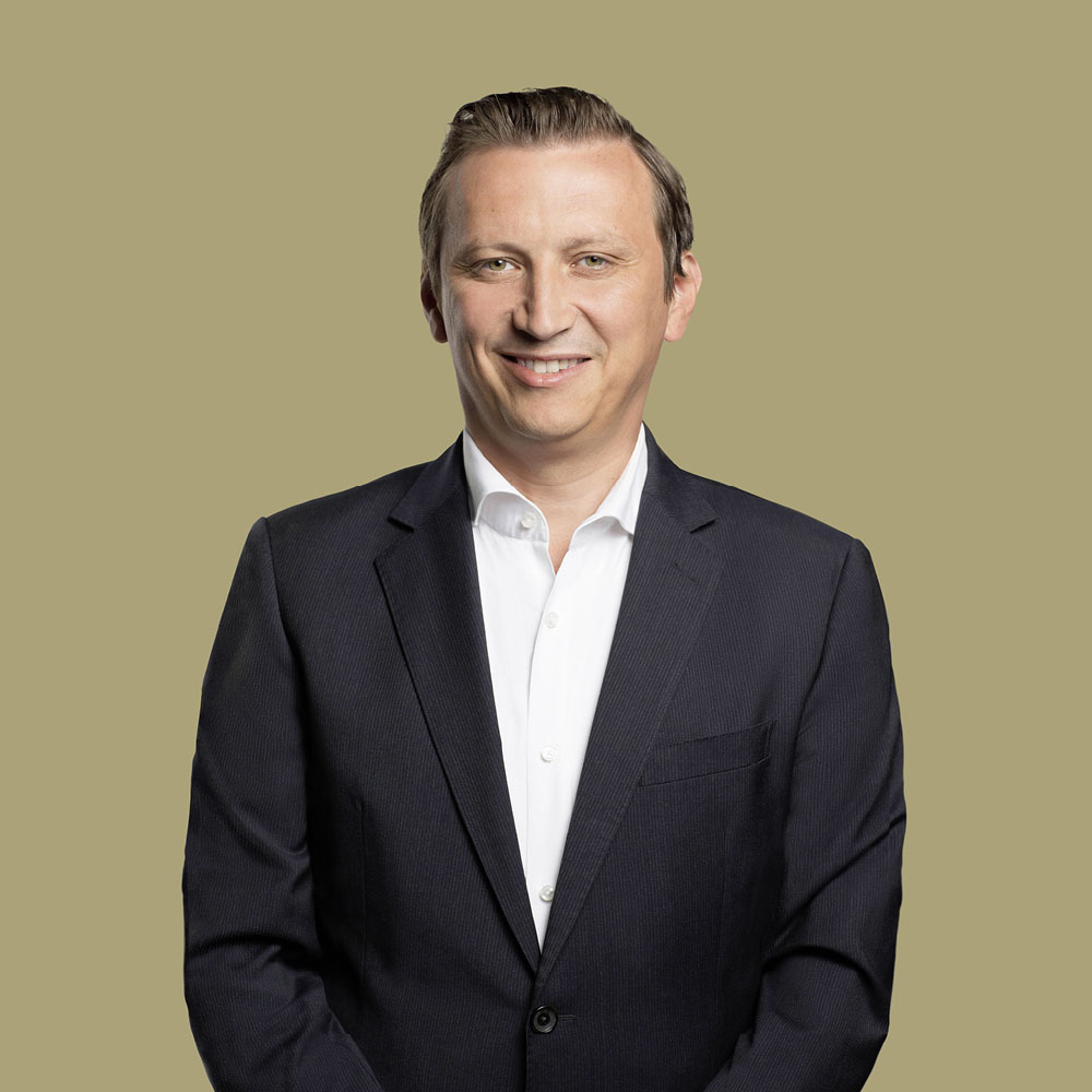 Lionel Souque, Member of the Management Board of Rewe Group